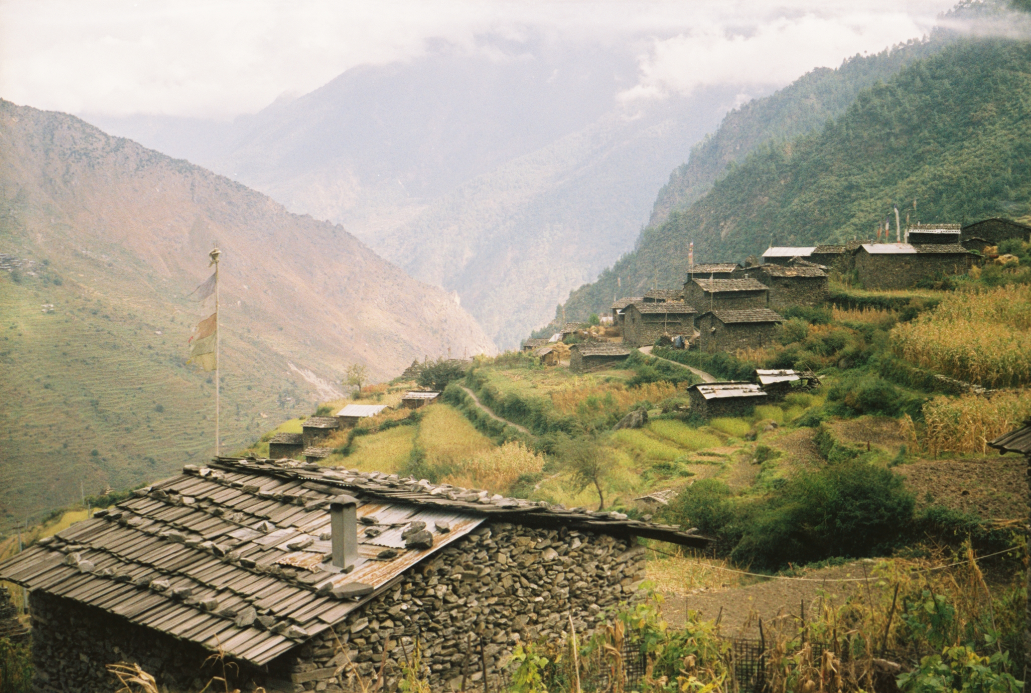 Golung, Rasuwa District, Nepal